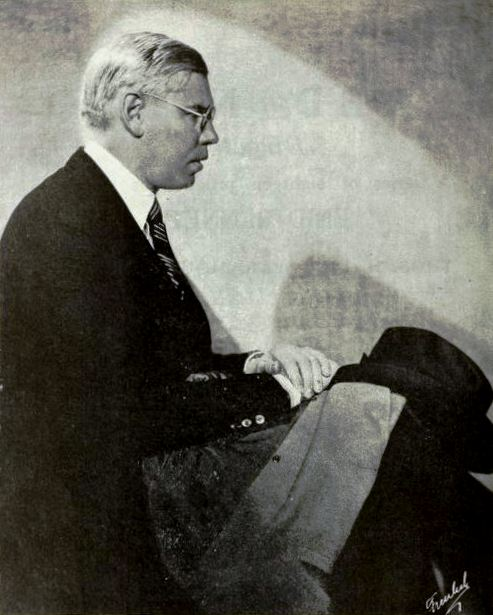 American director T. Hayes Hunter on page 24 of the April 24, 1921 Film Daily.